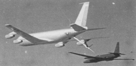 A Lockheed U-2F being refueled by a Boeing KC-135Q Stratotanker.